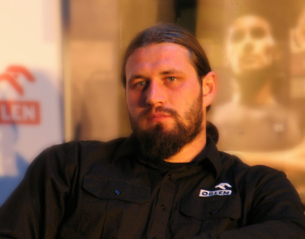 Tomasz Majewski - Polish athlete, shot-putter, Olympic gold medallist (Beijing 2008)